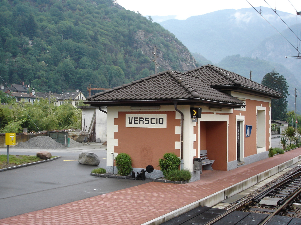 Verscio train station.